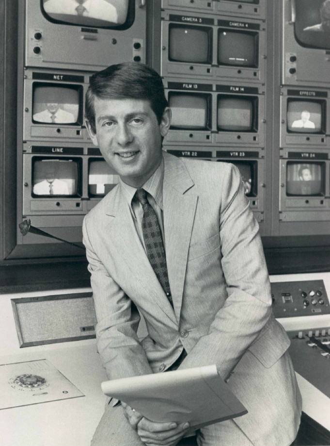 Photo of Ted Koppel when he was the diplomatic correspondent for ABC News.